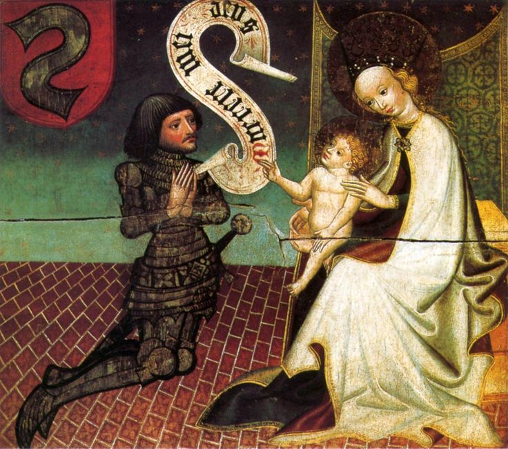 Epitaph of Polish nobleman John at/of Ujazd (Epitafium Jana z Ujazdu); "In the Year of Our Lord, one thousand four hundred fifty, on the first Saturday after the feast day of St. John the Baptist, died the nobleman John at/of Ujazd, pray for him, amen." From the Latin inscription on the frame of the epitaph sealed with the Srzeniawa coat of arms (see related Drużyna coat of arms) of the Polish knight (szlachta), Ioannes Ognads, also Johannes de Ugyasd, starosta of the crown lands of Czchów, Kraków voivodeship, Lesser Poland province, Crown of the Kingdom of Poland, and leader of the Wołochowie (Wołosi -- shepherds from Transylvania and the Balkans at the edges of the Polish Kingdom)